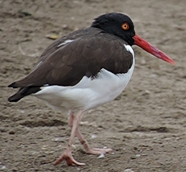 Taken at Pantanos de Villa, Chorrillos, Lima, Peru